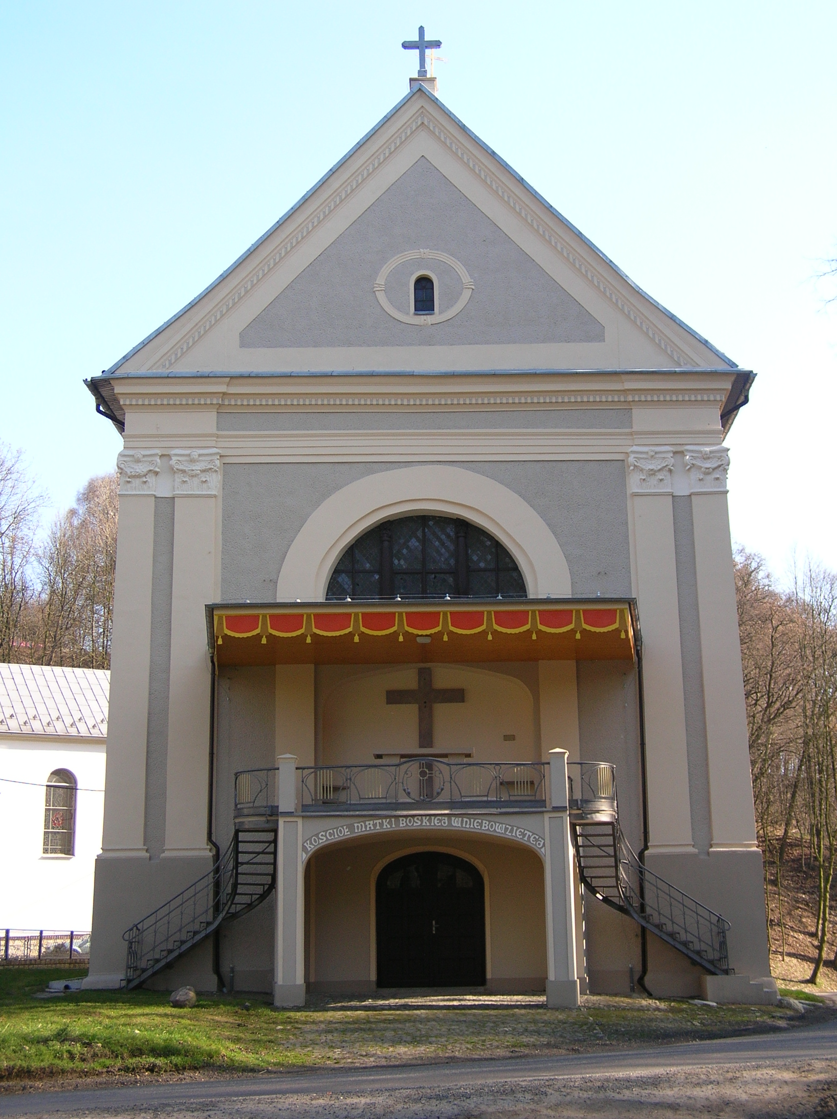 Church at Poręba (Opole Silesia)